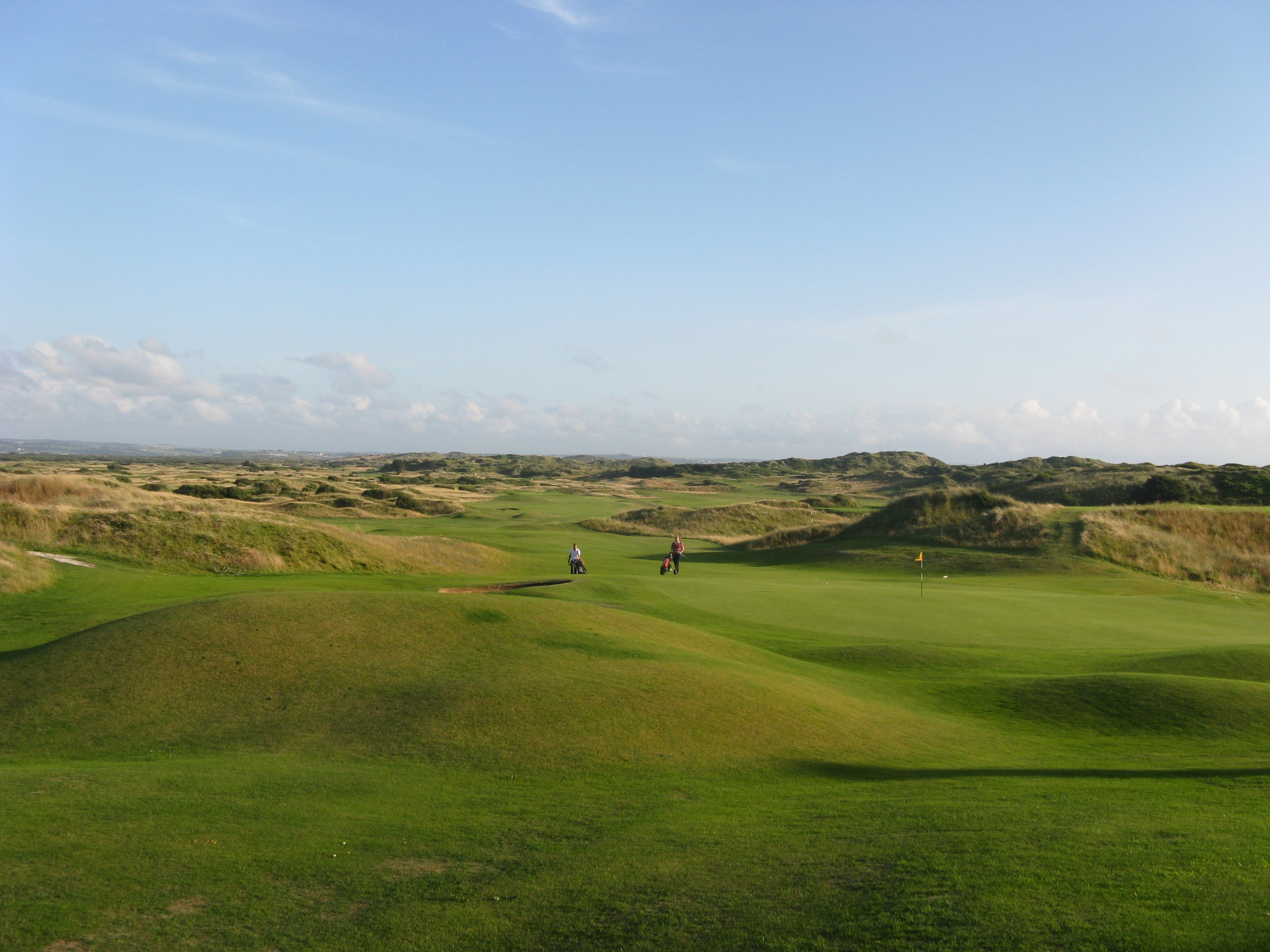 Saunton Golf Course, Devon/England,, East Course, Hole 18